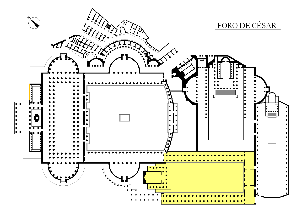 IForum of Caesar